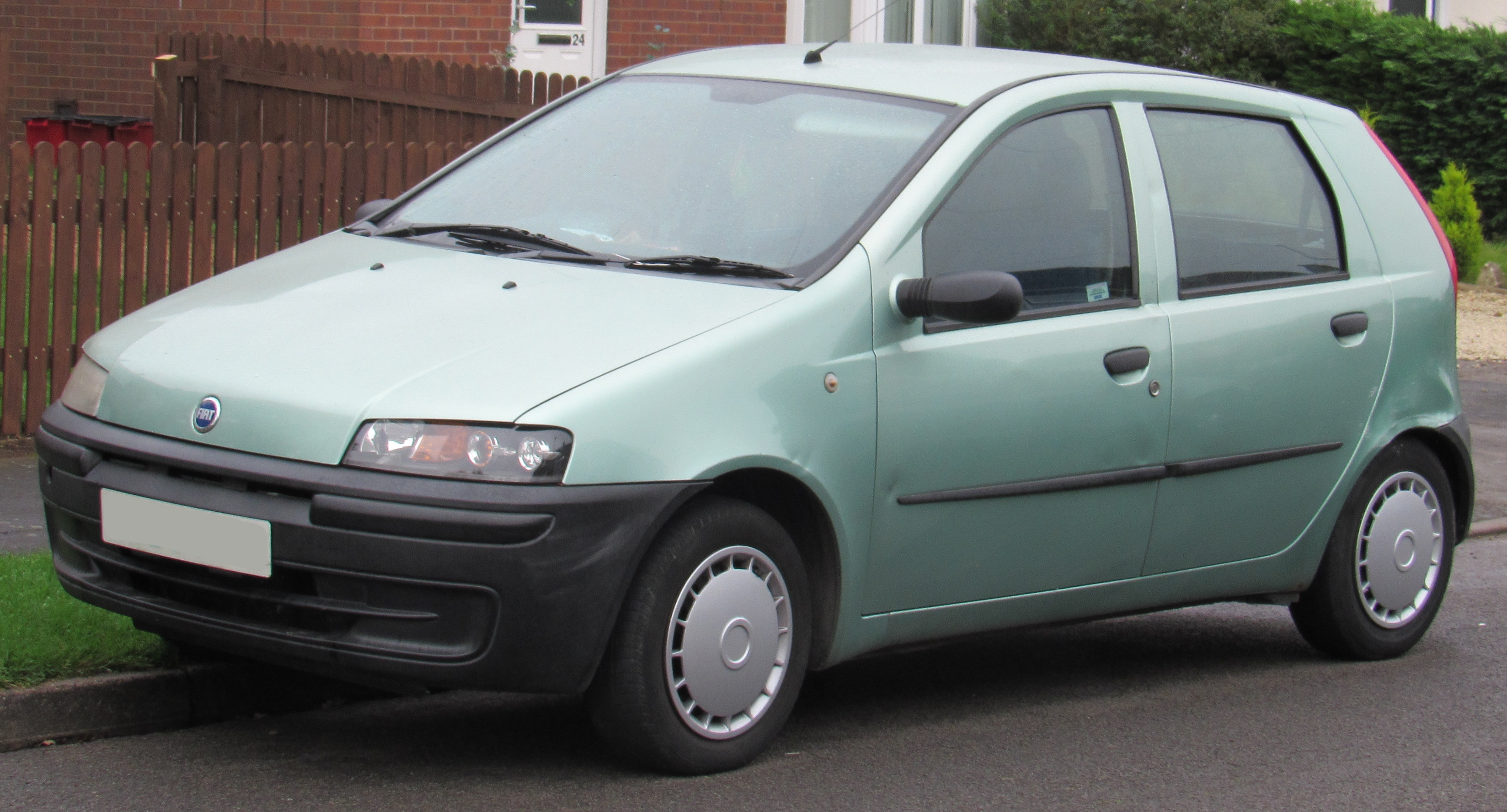 2000 Fiat Punto 1.2 Taken in Leamington Spa